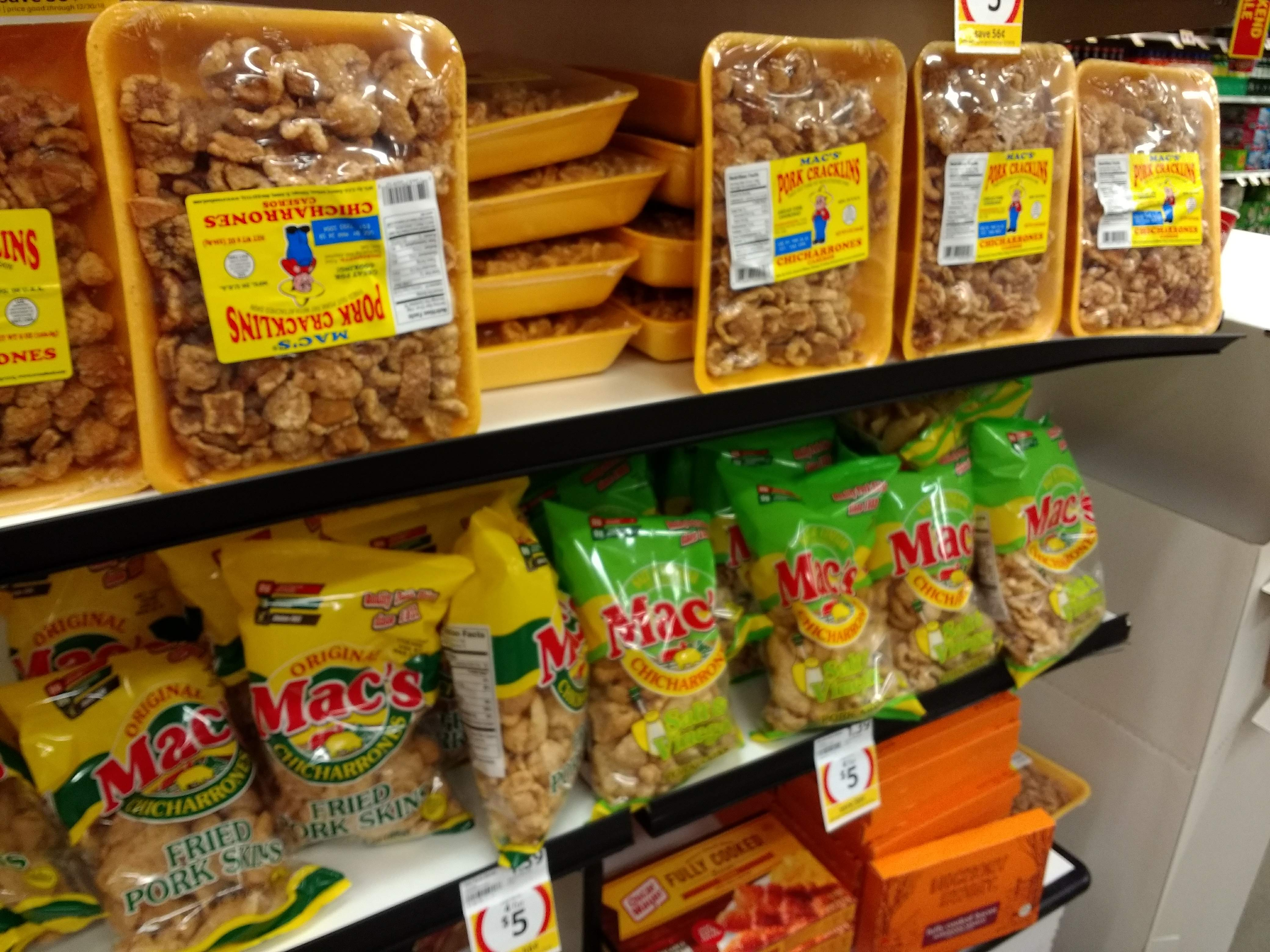 A selection fried pork skins and pork cracklins at a local Winn-Dixie in Florida.